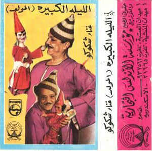 Mahmoud Shokoko al-Layla al-Kebira Album 1979